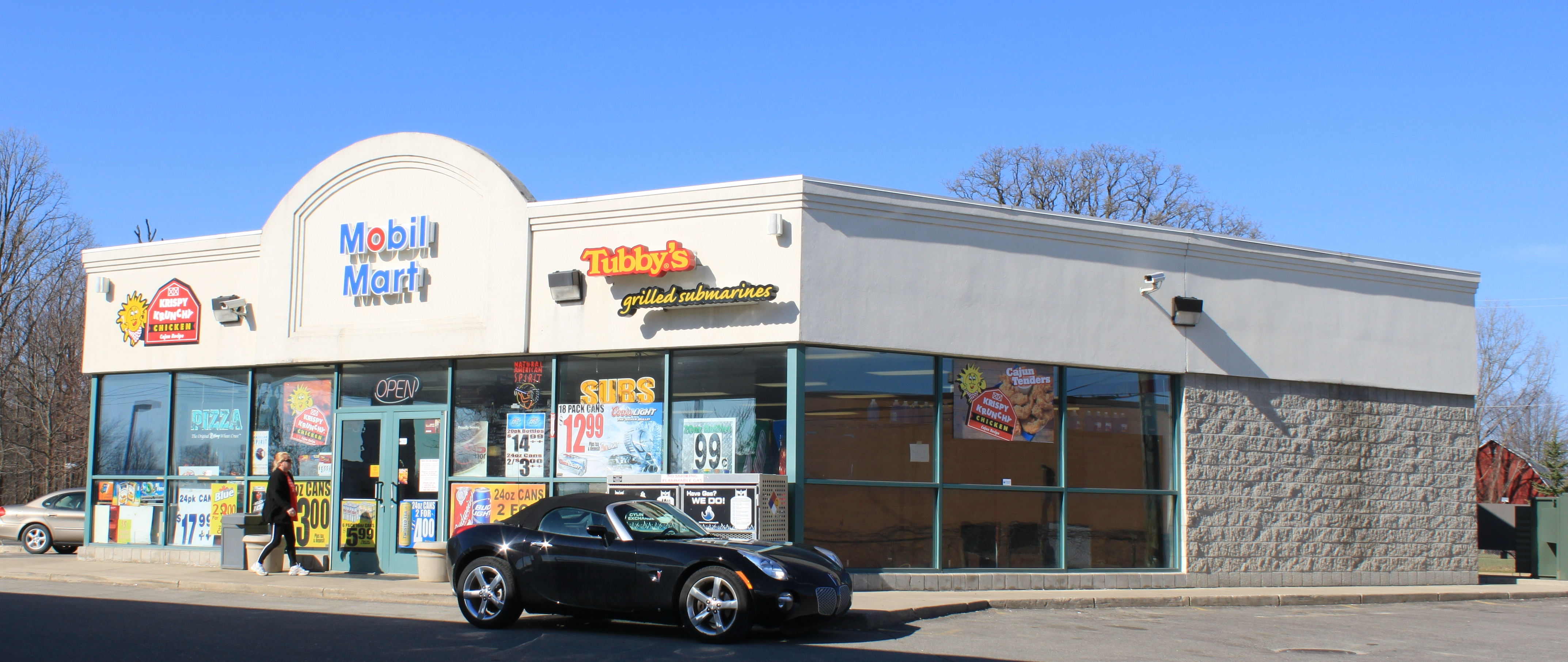 Tubby's grilled submarines store, 20777 Pontiac Trail, South Lyon, Michigan